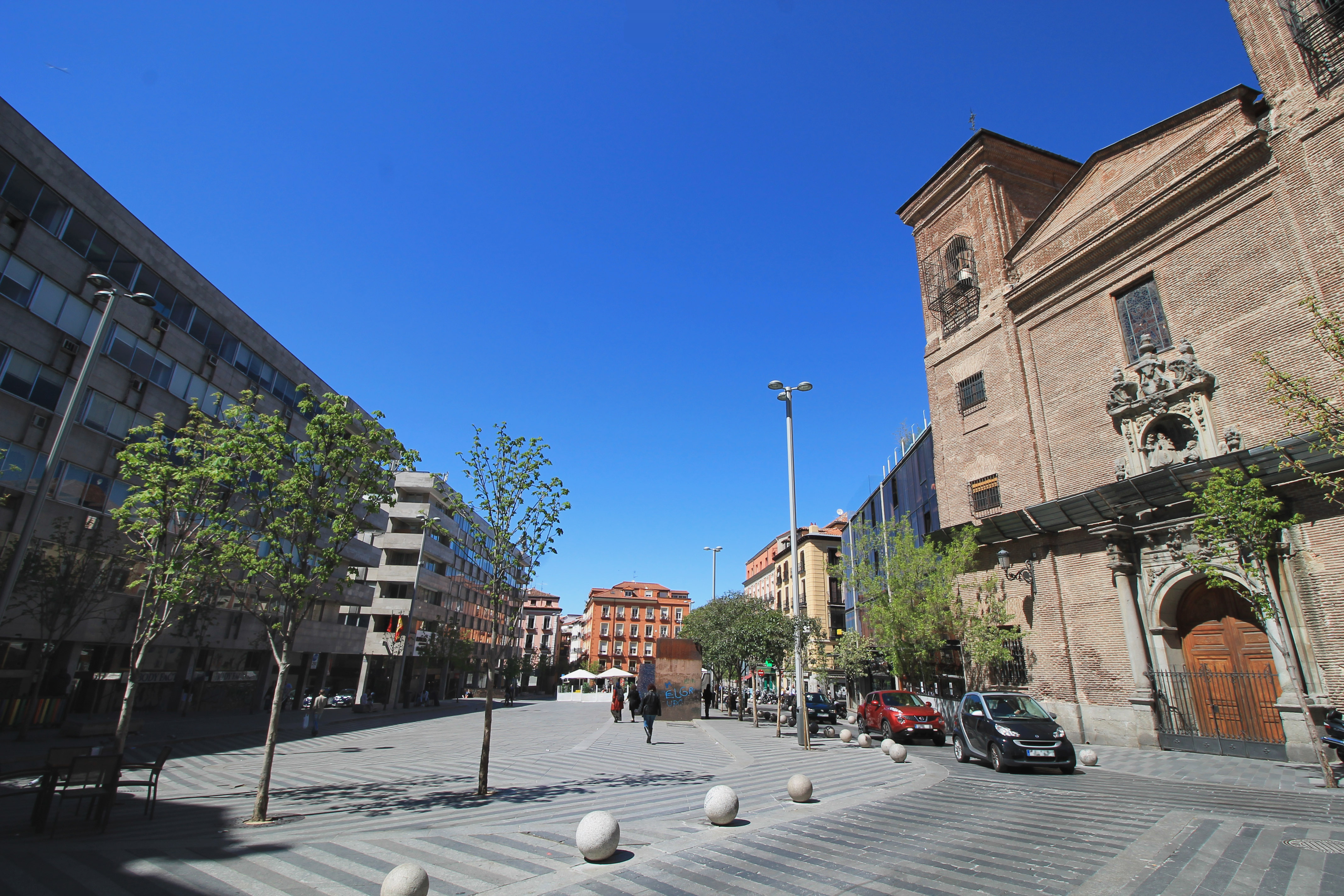 View from Plaza de Santa María Soledad Torres Acosta (square) in Madrid (Spain).